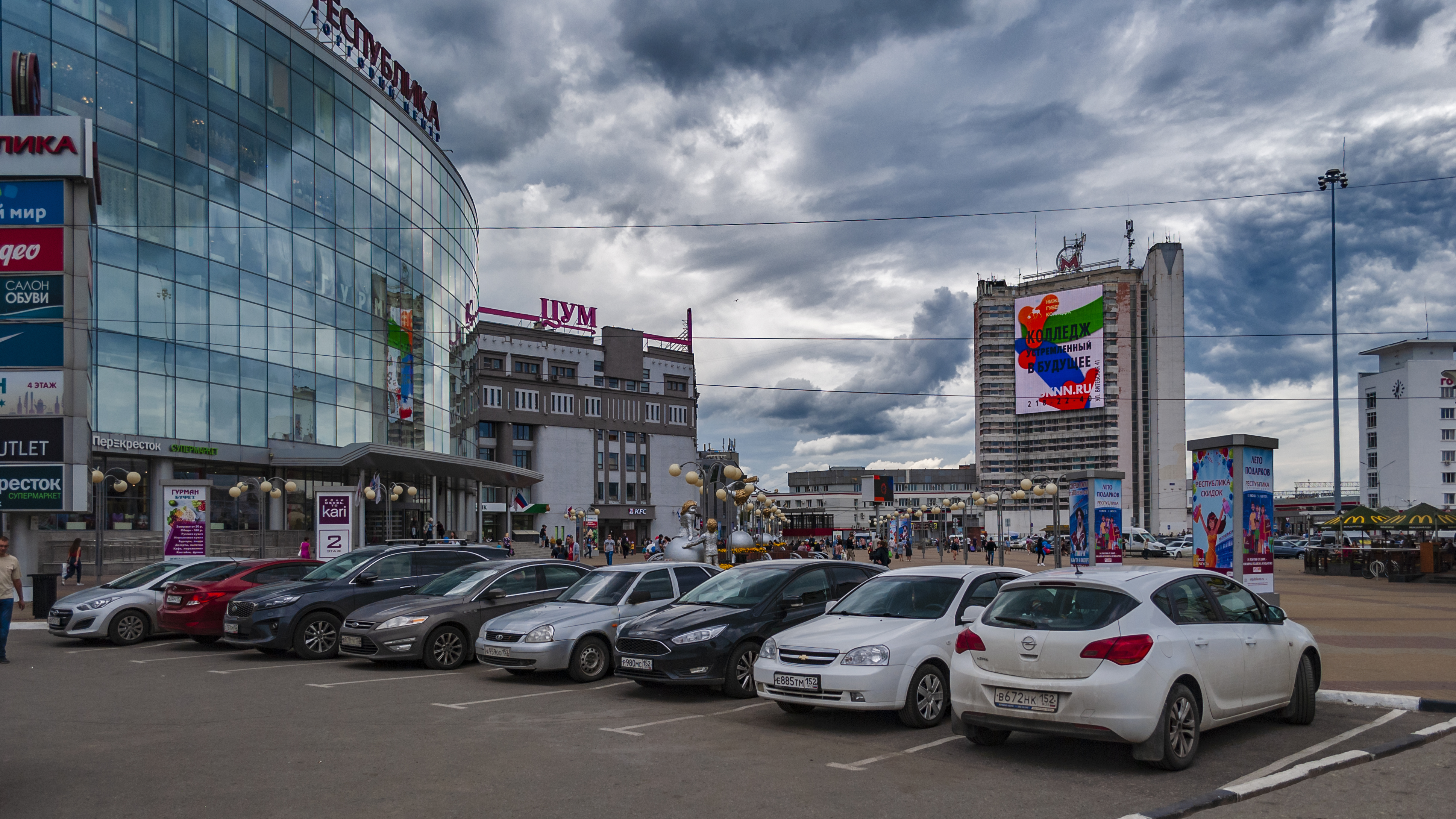 Revolution Square, Nizhny Novgorod